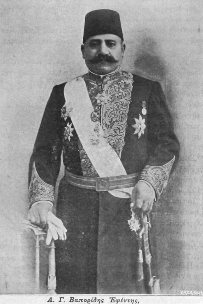 Avraam Vaporidis Effendi (1855-1911), high-ranking Greek Dignitary of the Ottoman Empire